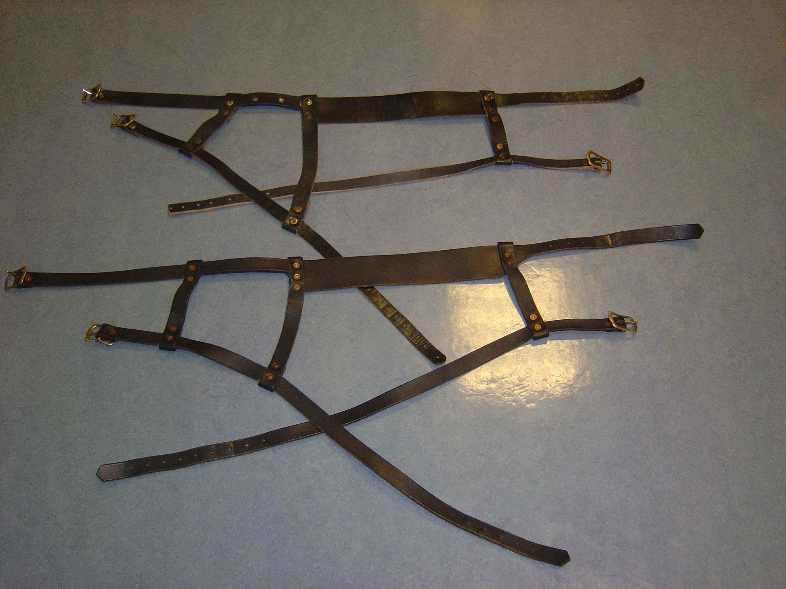 Pictures of 2 glima belts